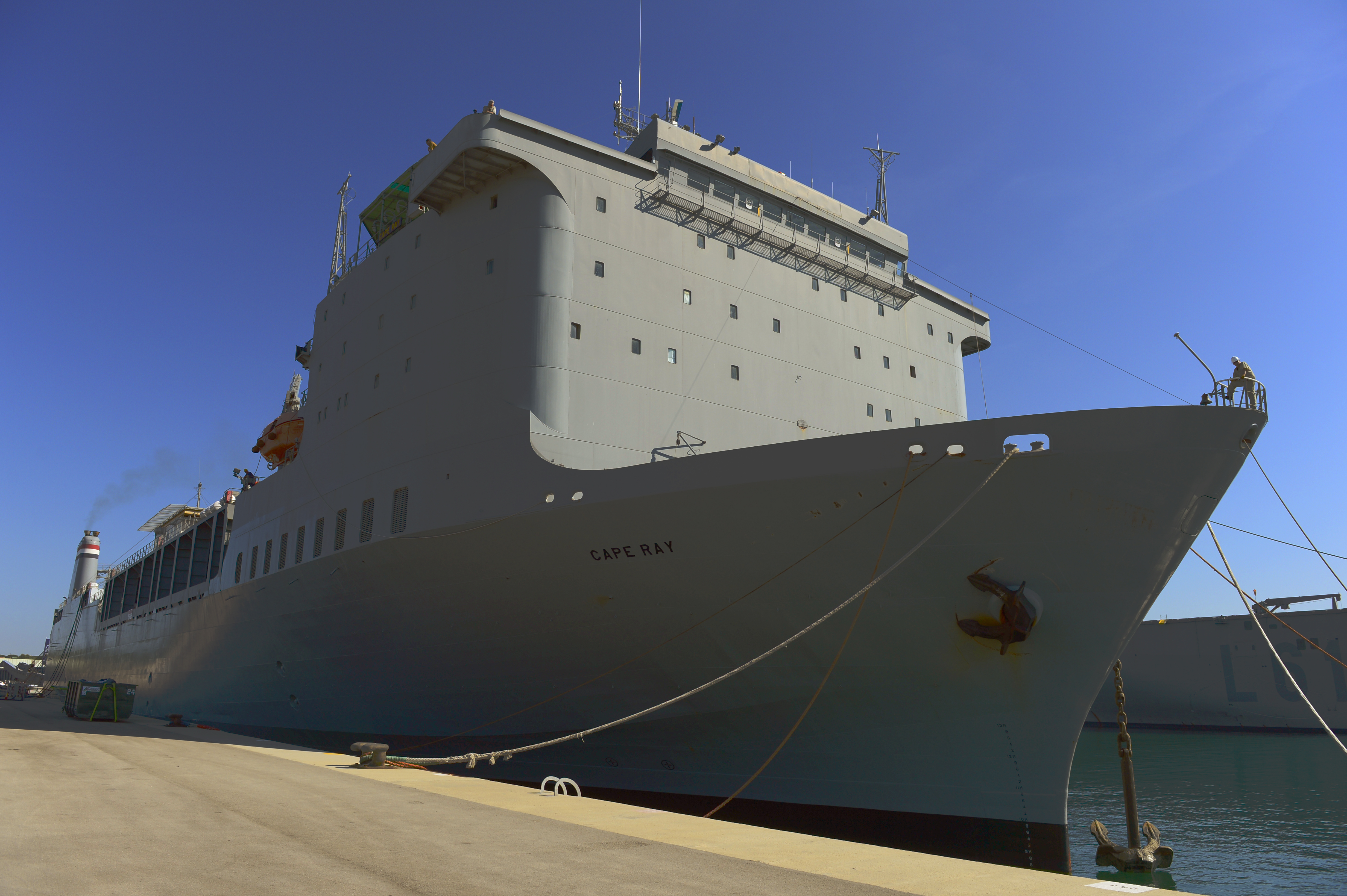 Crew members complete preventative maintenance checks to the starboard side systems of the roll-on/roll-off and container ship MV Cape Ray while docked in Rota, Spain, June 3, 2014. The U.S. government-owned MV Cape Ray was modified and deployed to the eastern Mediterranean Sea to dispose of Syrian chemical agents in accordance with terms Syria agreed to in late 2013. Unit: Defense Imagery Management Operations Center